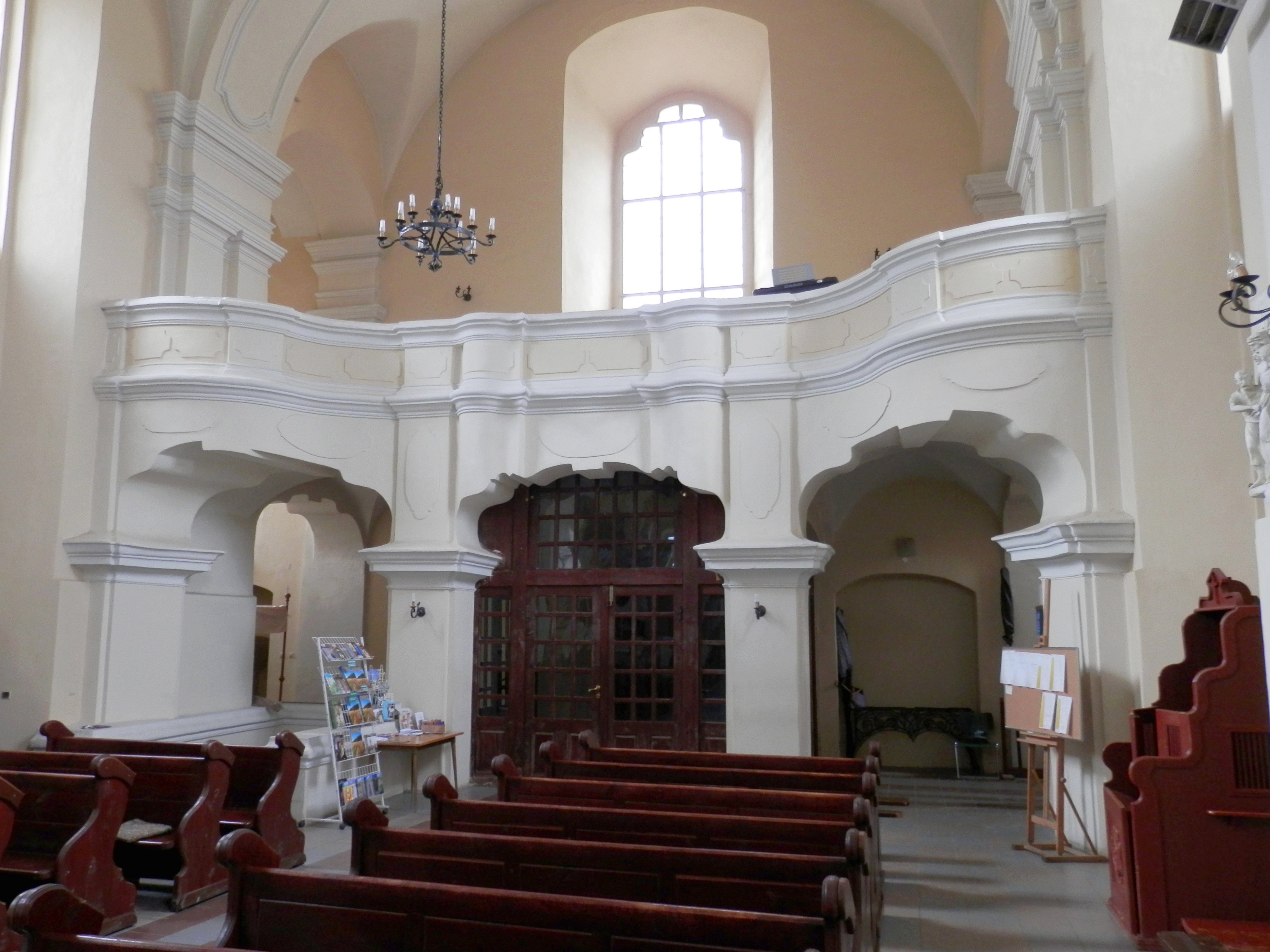 Franciscan Church of Saint Michael the Archangel. Ivyanets, Belarus.